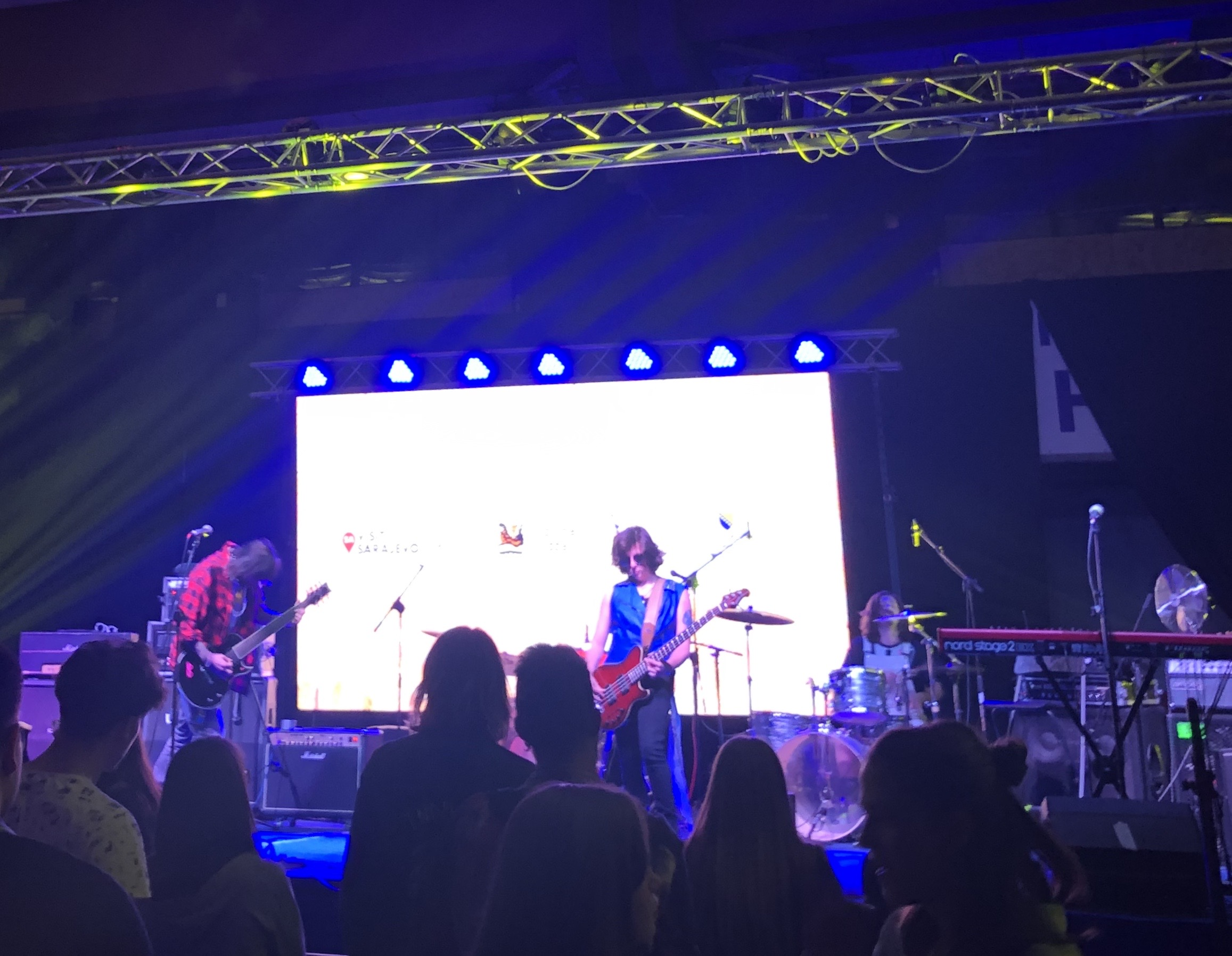 The band performing live. From left to right: Simón Rojas (Nowis), Esteban Domic and Virgo.